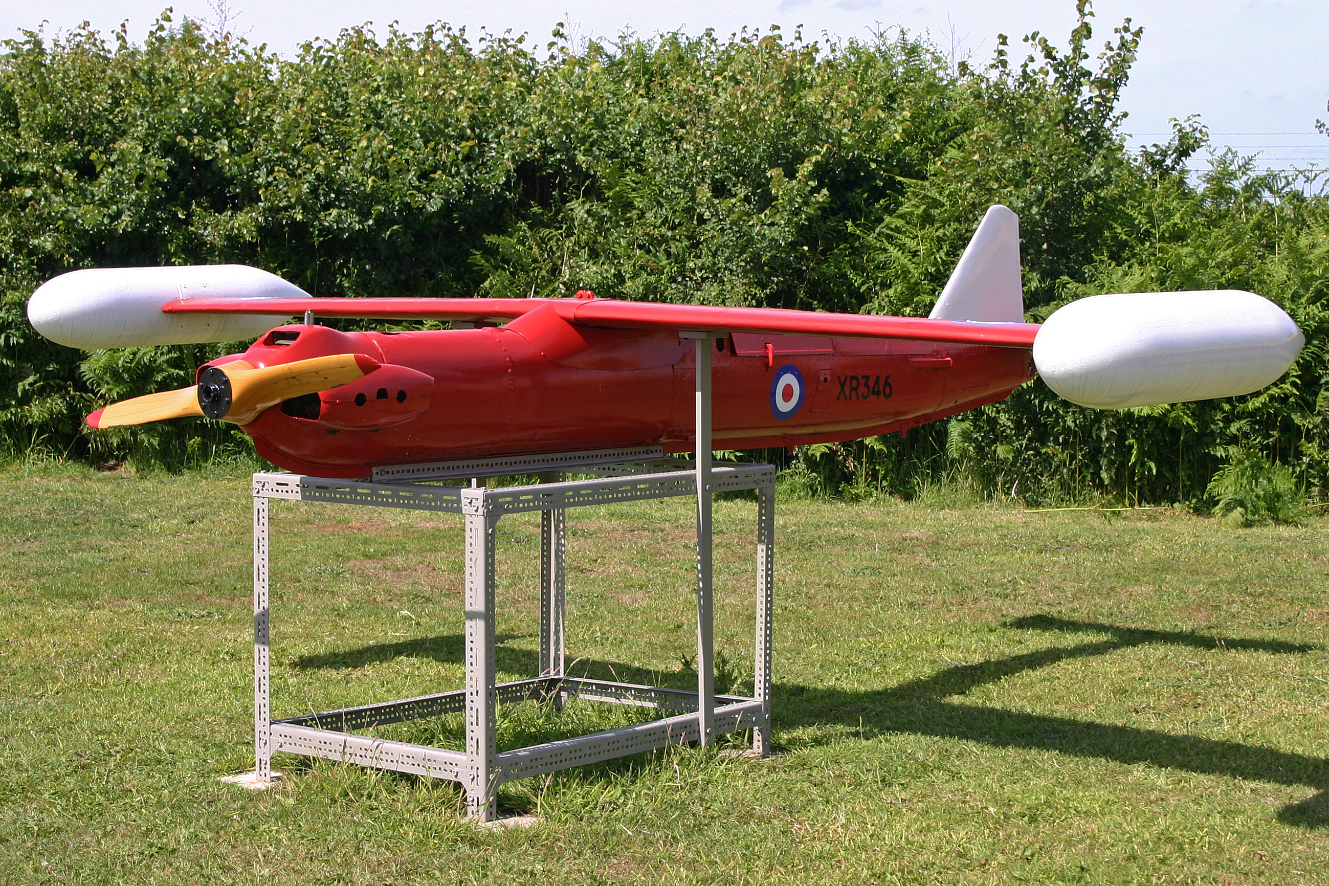 Target drone. Bournemouth Air Museum. 14-6-2011